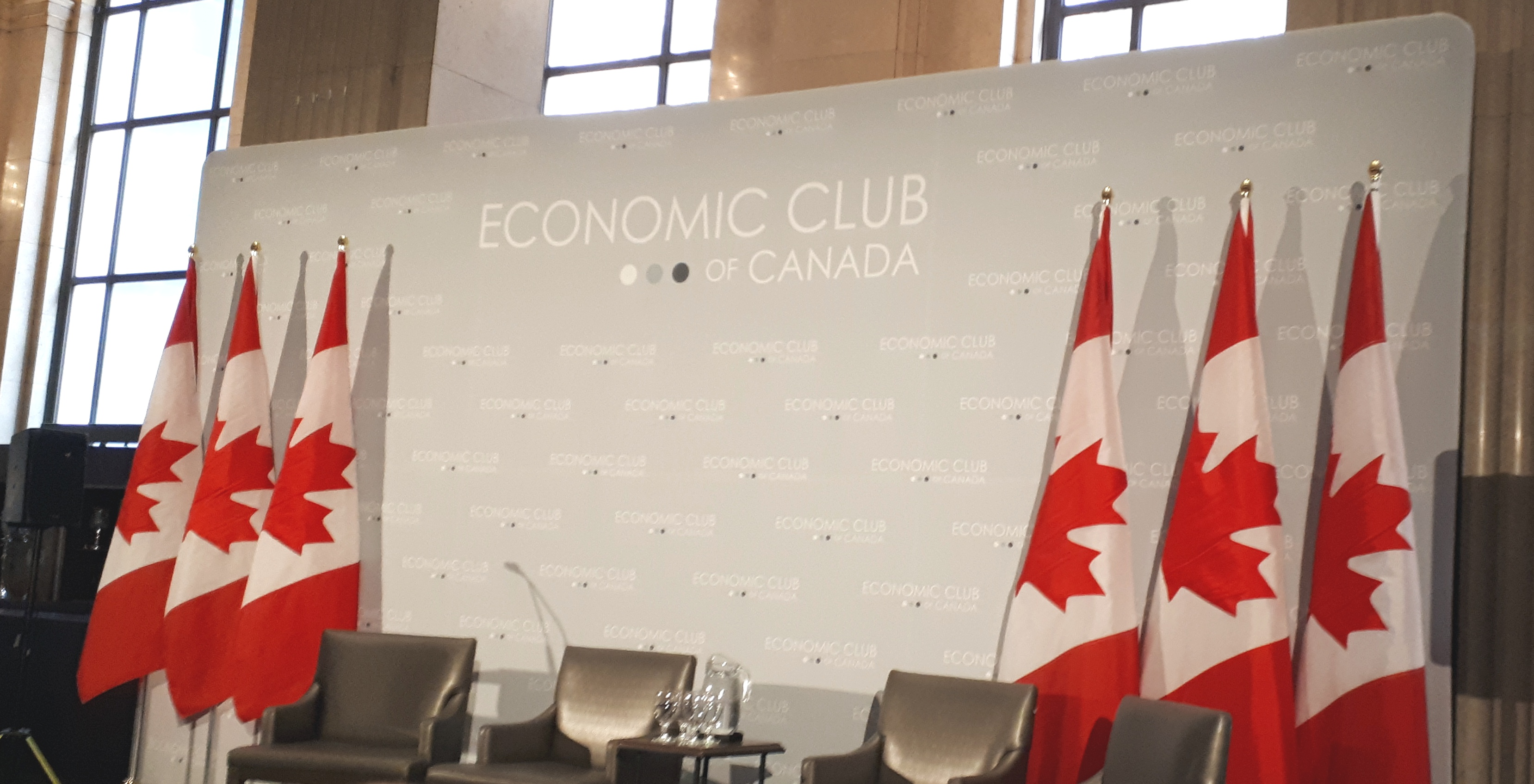 Stage at the King Edward Hotel in Toronto before an event in Feb. 2020.